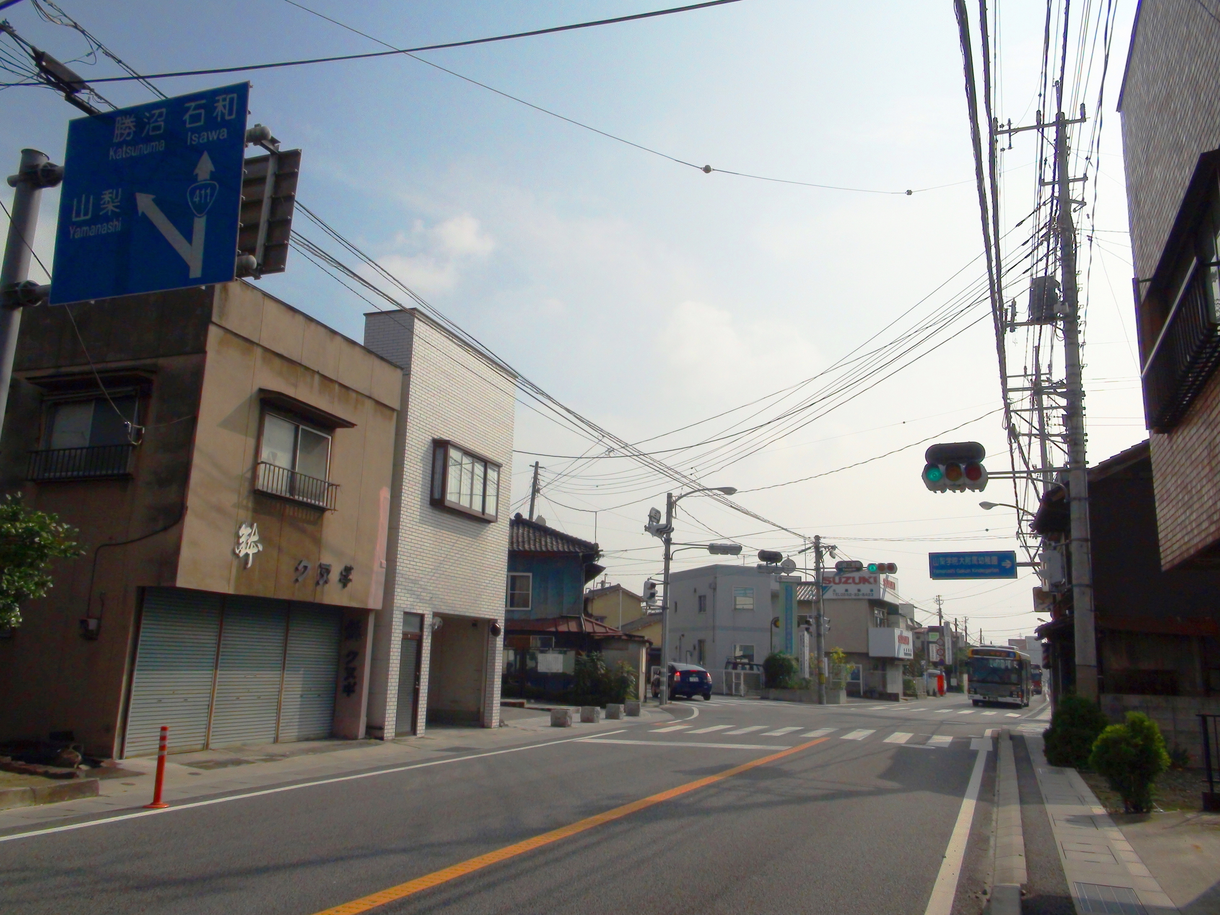 Yamazaki junction of three roads. The terminal of Ome Highway, the spot that join Koshu Highway again